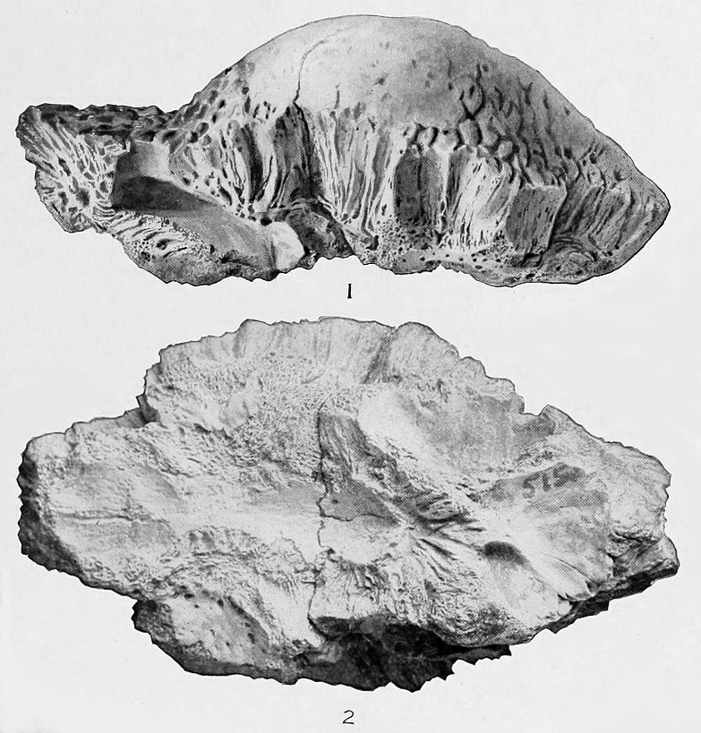 Superior portion of occipital, parietal, and frontal of skull of Stegoceras validum Lambe. Partial dome of lectotype specimen CMN 515.